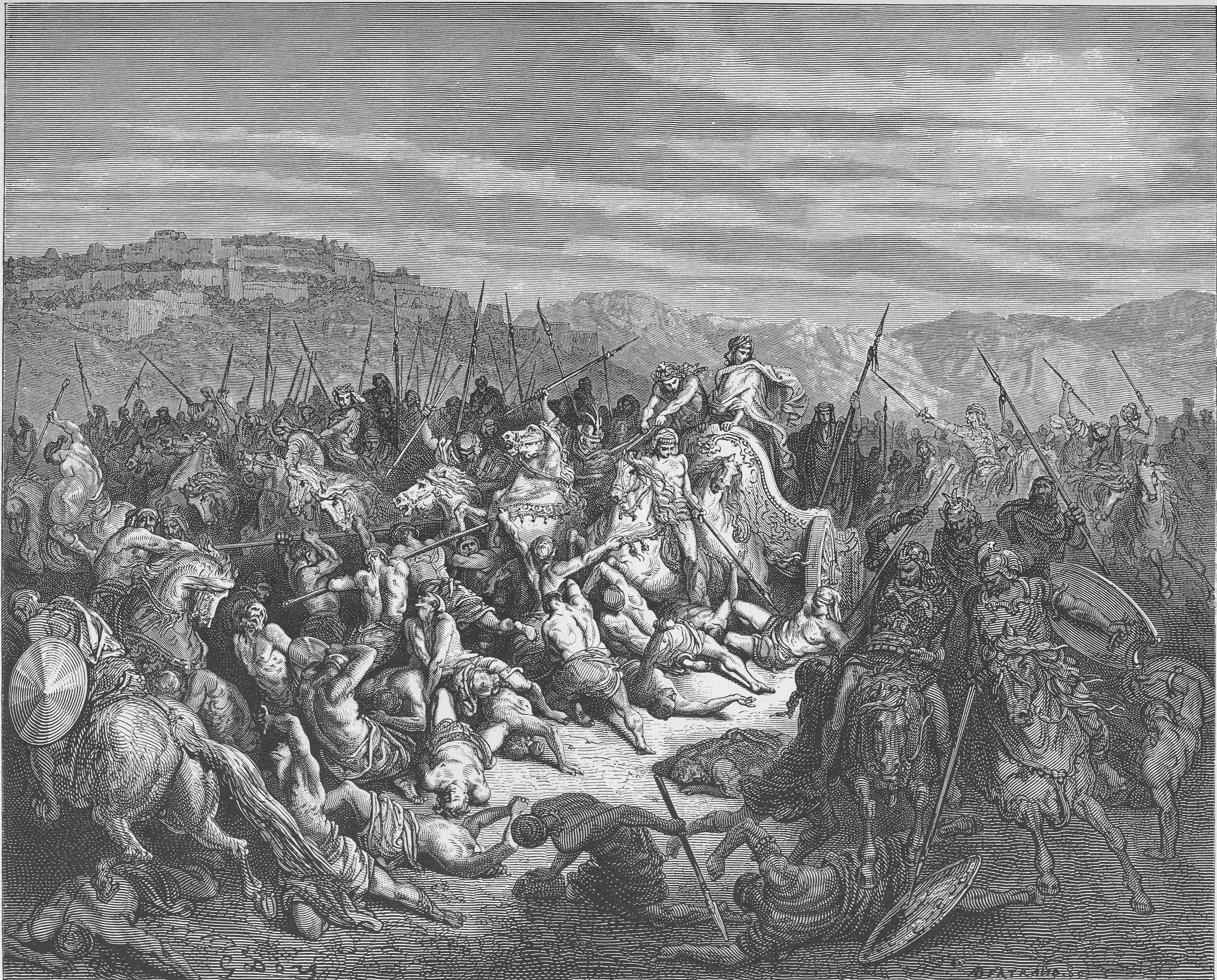 The Israelites Slaughter the Syrians (1Kings 20:26-34)